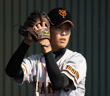 Ryosuke Miyaguni, a pitcher of the Yomiuri Giants.